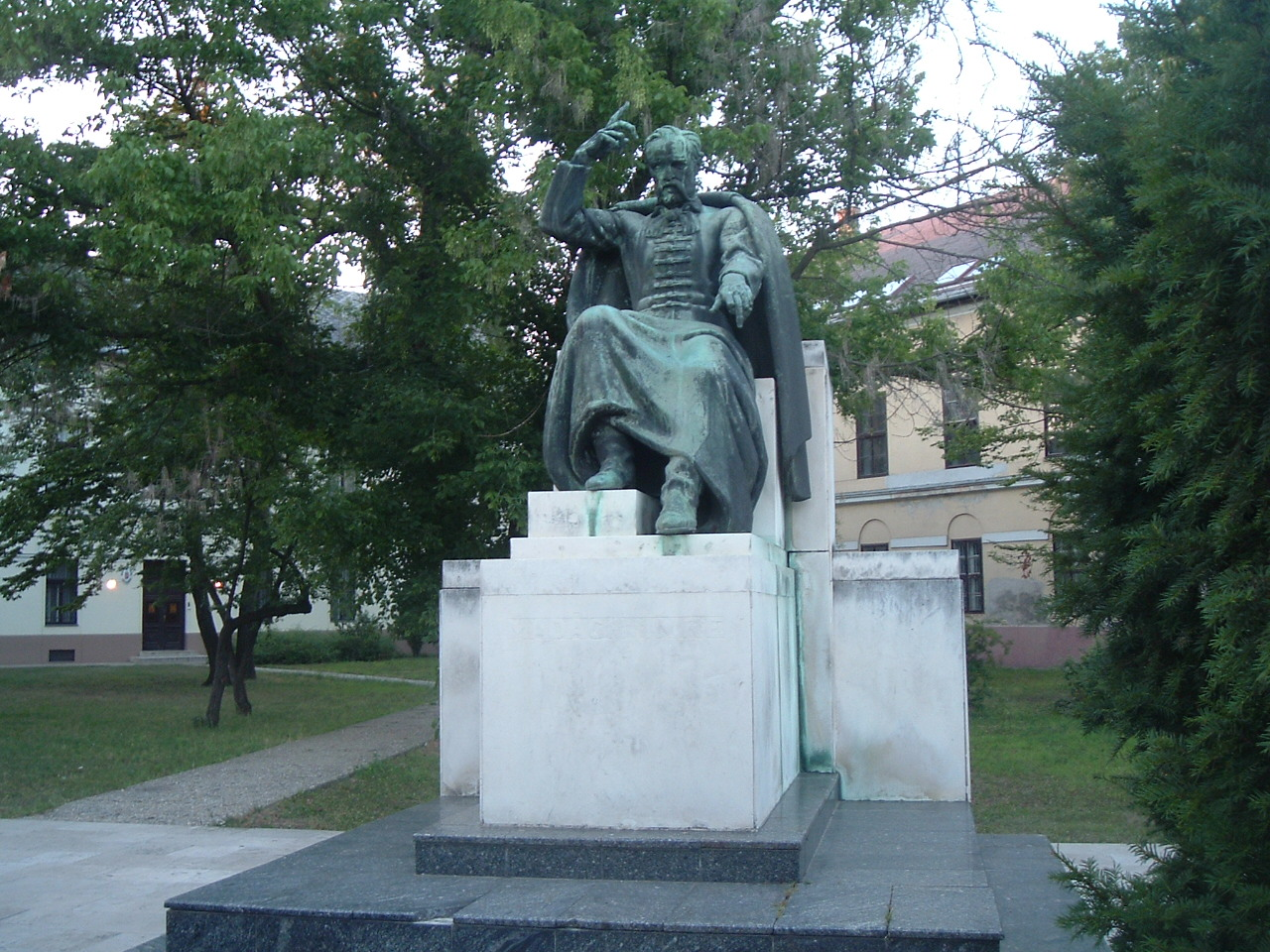 Balassagyarmat, Madach statue